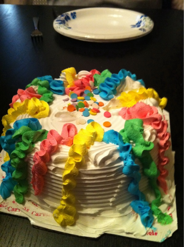 The chocolate crunchies are the bestest!